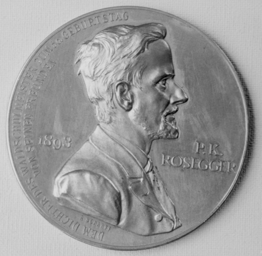 [Medallion] In Honor of the 50th Birthday of the Poet and Novelist, P.K. Rosegger